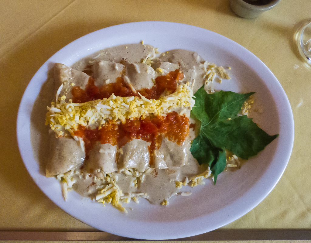 Papadzules, a traditional Yucatecan dish, at La Chaya Maya Restaurante in Mérida, Yucatán.